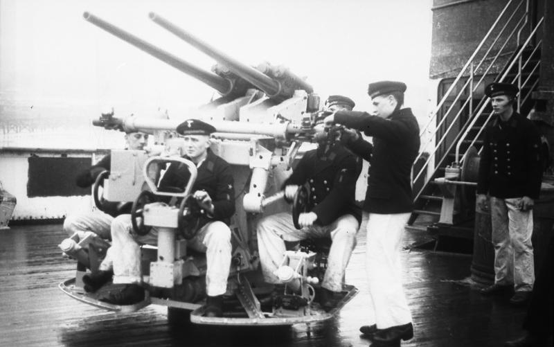 3.7cm SK C/30 semi-automatic gun upon LC/30 mount